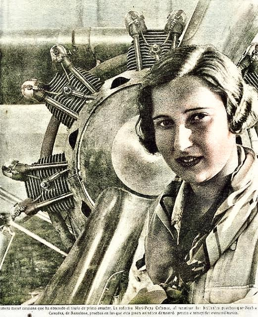 A colorized image of Colomer as used on the 18 January 1931 cover of Crónica magazine in Spain [1], depicting the teenage aviator by a plane propeller